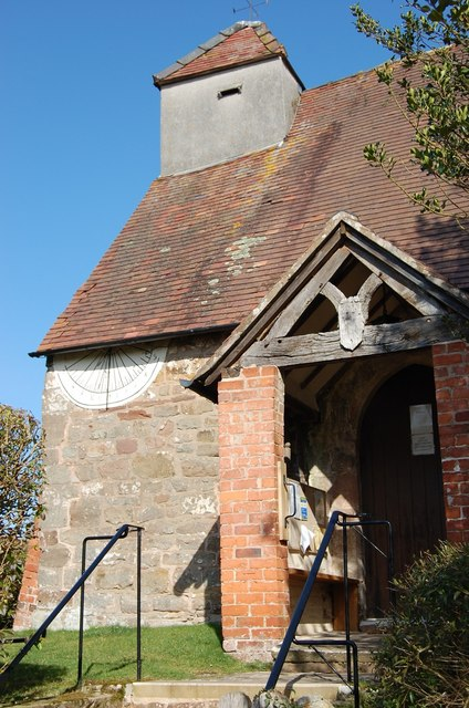 Sundial, Aylton Church